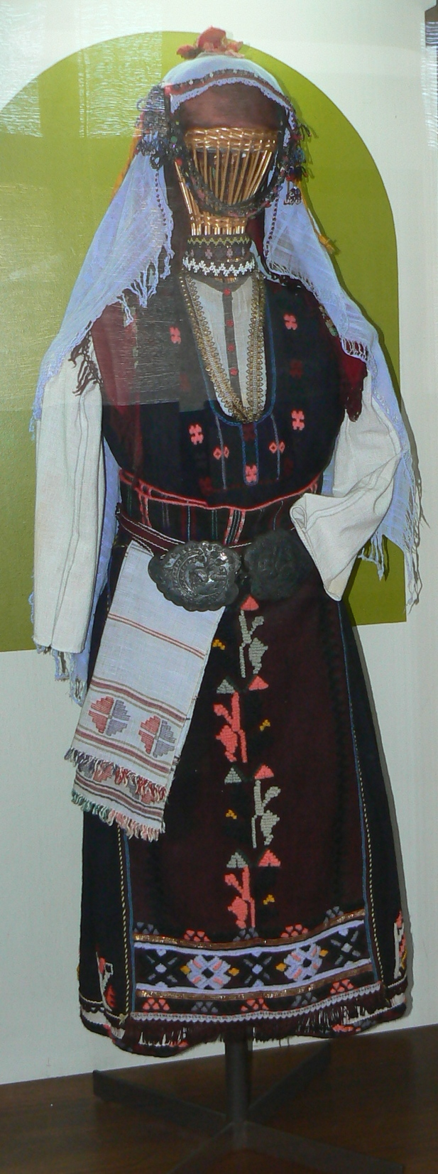 Traditional female costume from Vezenkovo, Burgas District, Burgas ethnographic museum